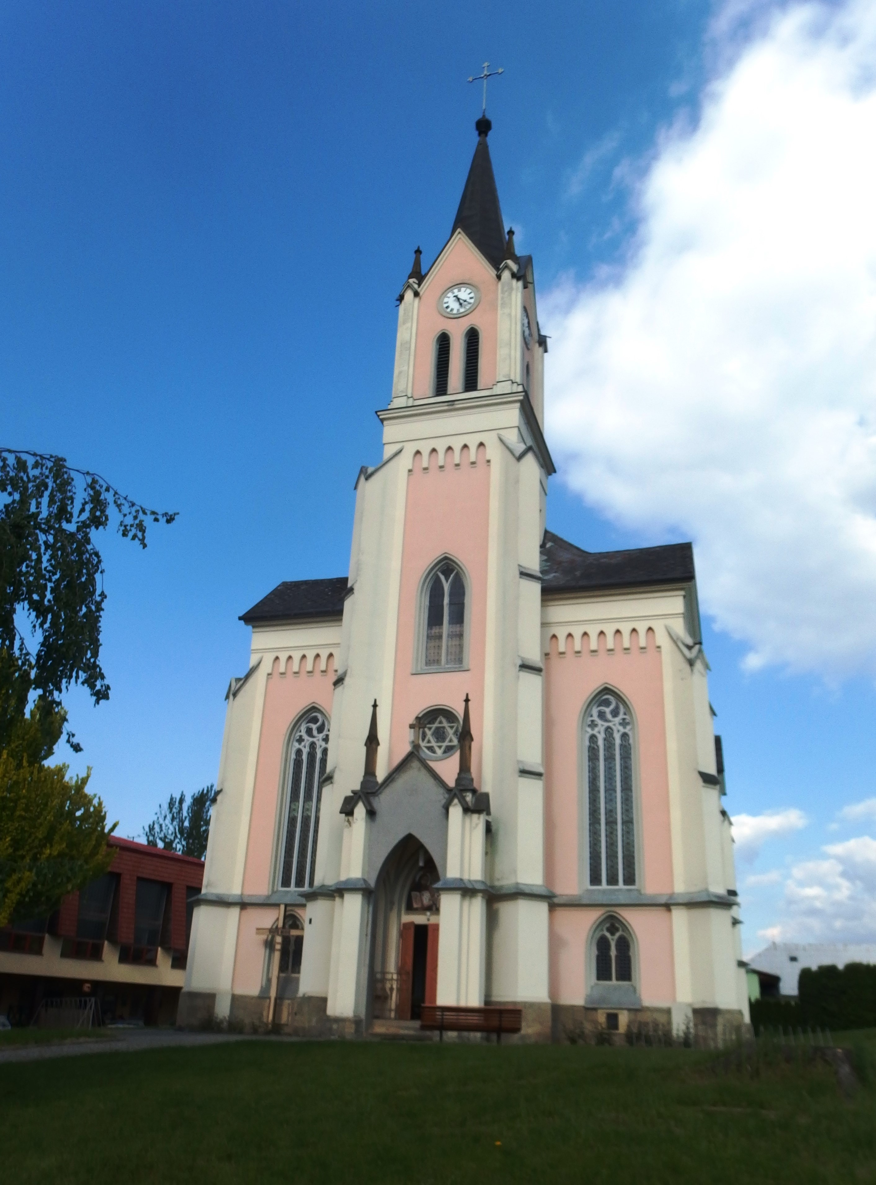 Vidče, Vsetín District, Czech Republic.